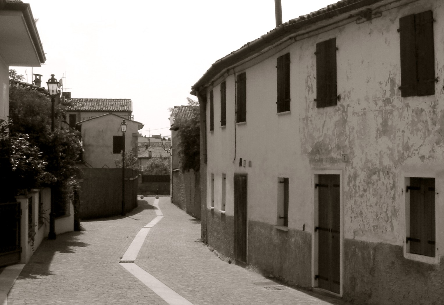 Pieve di Soligo: Cal Santa